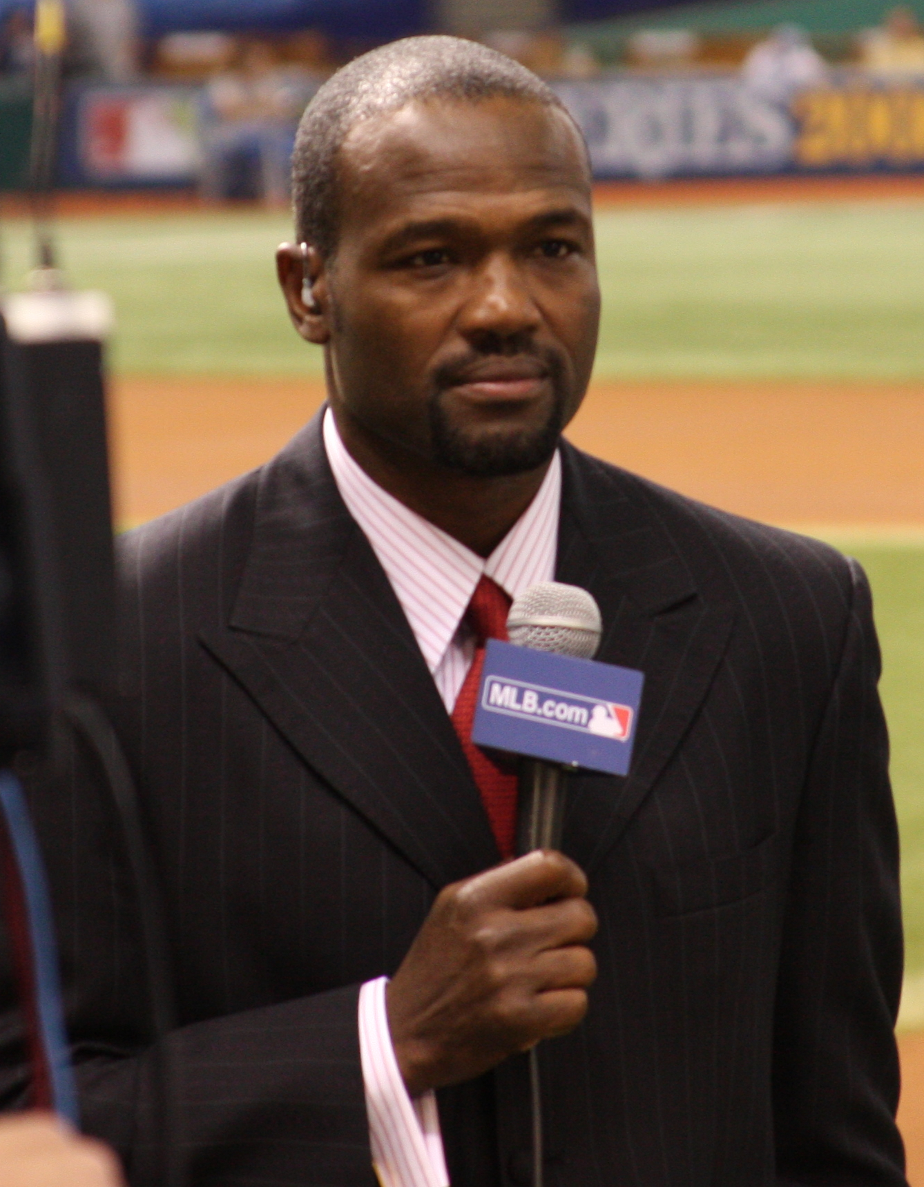 Harold Reynolds at Game 2 of the 2008 World Series.